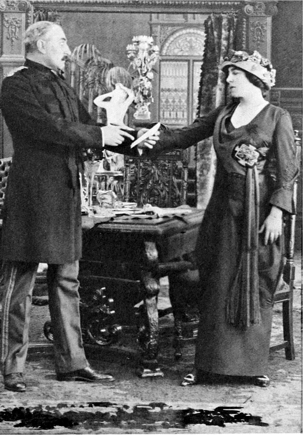 Photo of Leslie T. Peacocke and Lillie Langtry in a scene from the 1913 film His Neighbor's Wife. (Original text : A Pictorial History of the Silent Screen page 37)